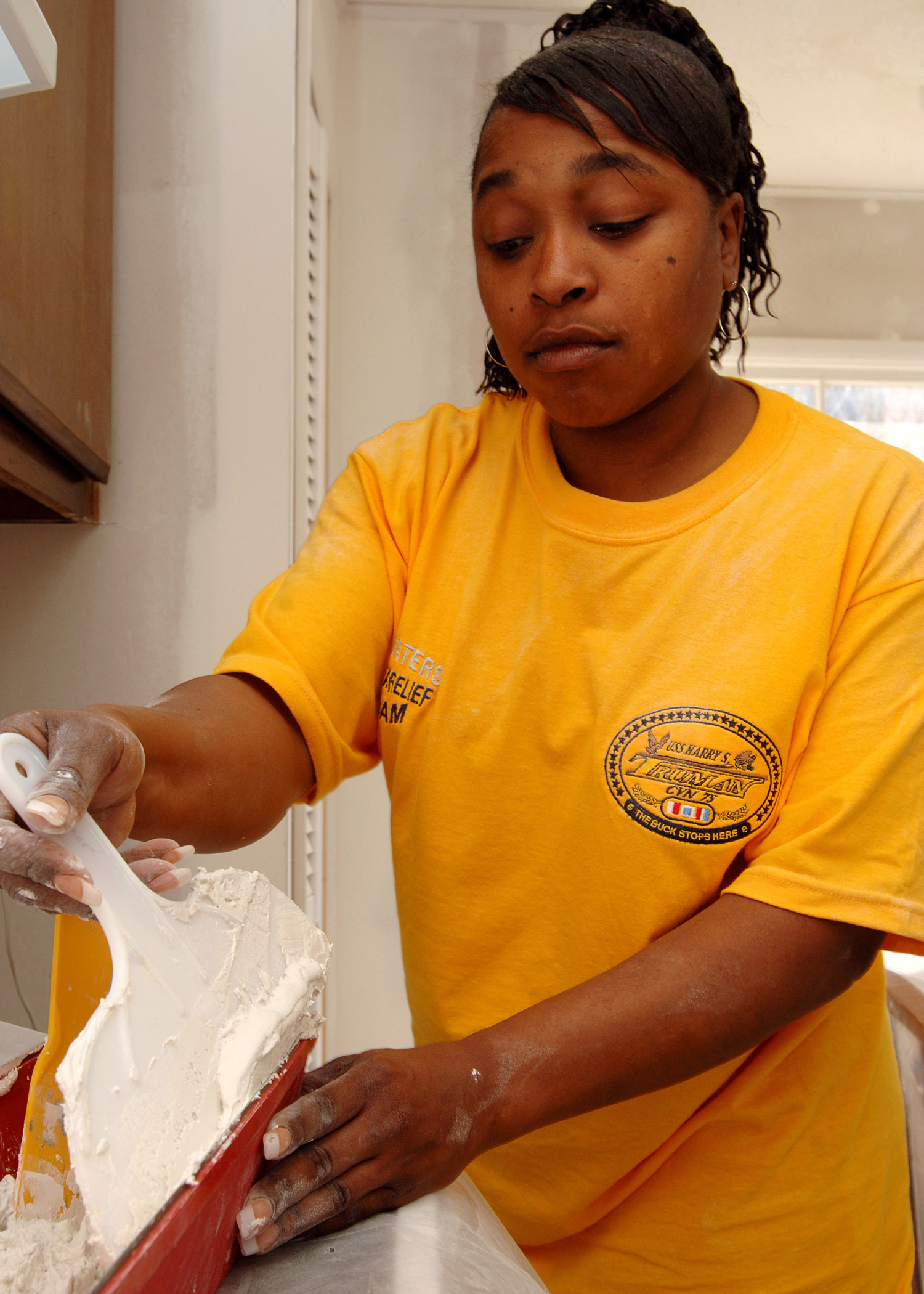 Gulfport, Miss. (March 6, 2006) - Operations Specialist 2nd Class Chandra Waters begins to spackle the kitchen walls in a Gulfport home, while preparing the interior for repainting. Twenty-three Sailors assigned to the Nimitz-class aircraft carrier USS Harry S. Truman (CVN 75) are in Southern Mississippi as part of a community relations (COMREL) team, working side-by-side with civilian volunteers from around the world through Camp Hope. U.S. Navy photo by Photographer's Mate 3rd Class Kristopher Wilson (RELEASED)